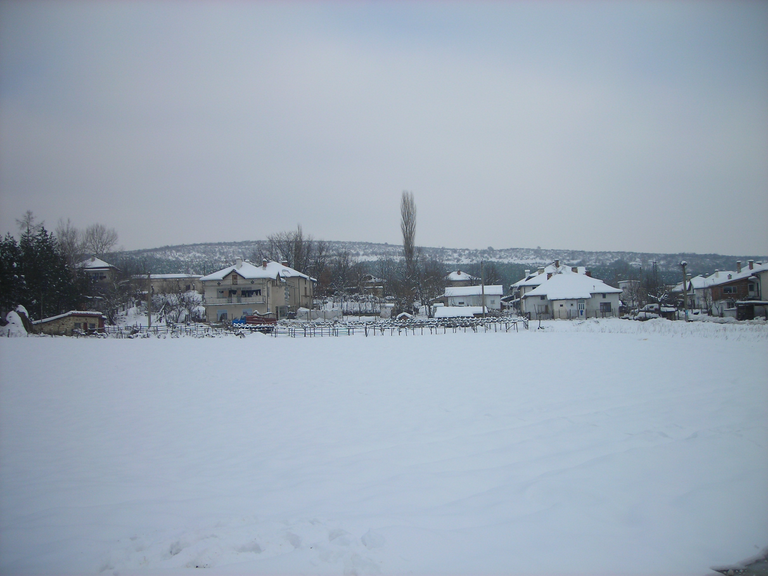 Village of Slanchogled, Bulgaria